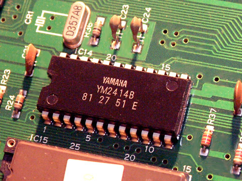 2003/06/01 Baz1521 撮影 Yamaha YM2414 Sound Chip